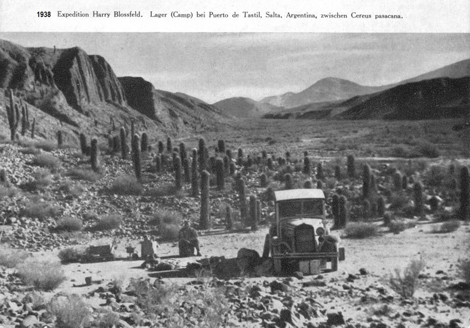 Harry Blossfeld (1913-1986) with his transportation of 1938 debating on how to carry one of those Cereus plants on his vehicle in Argentina. Chuck Staples, CSSA Historian